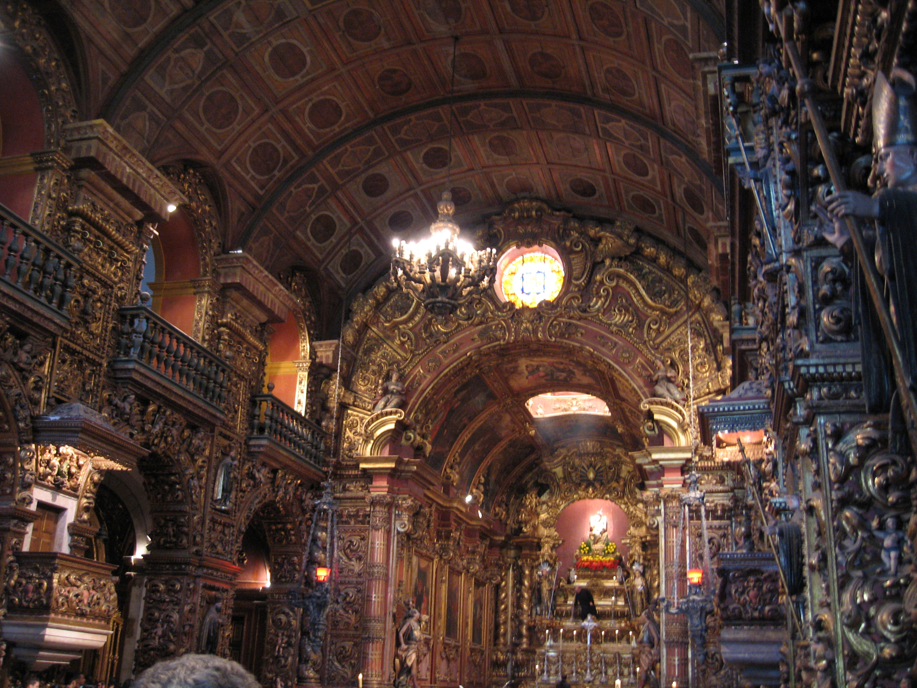 Interior view of the Mosteiro Sao Bento church in Rio de Janeiro, Brazil.